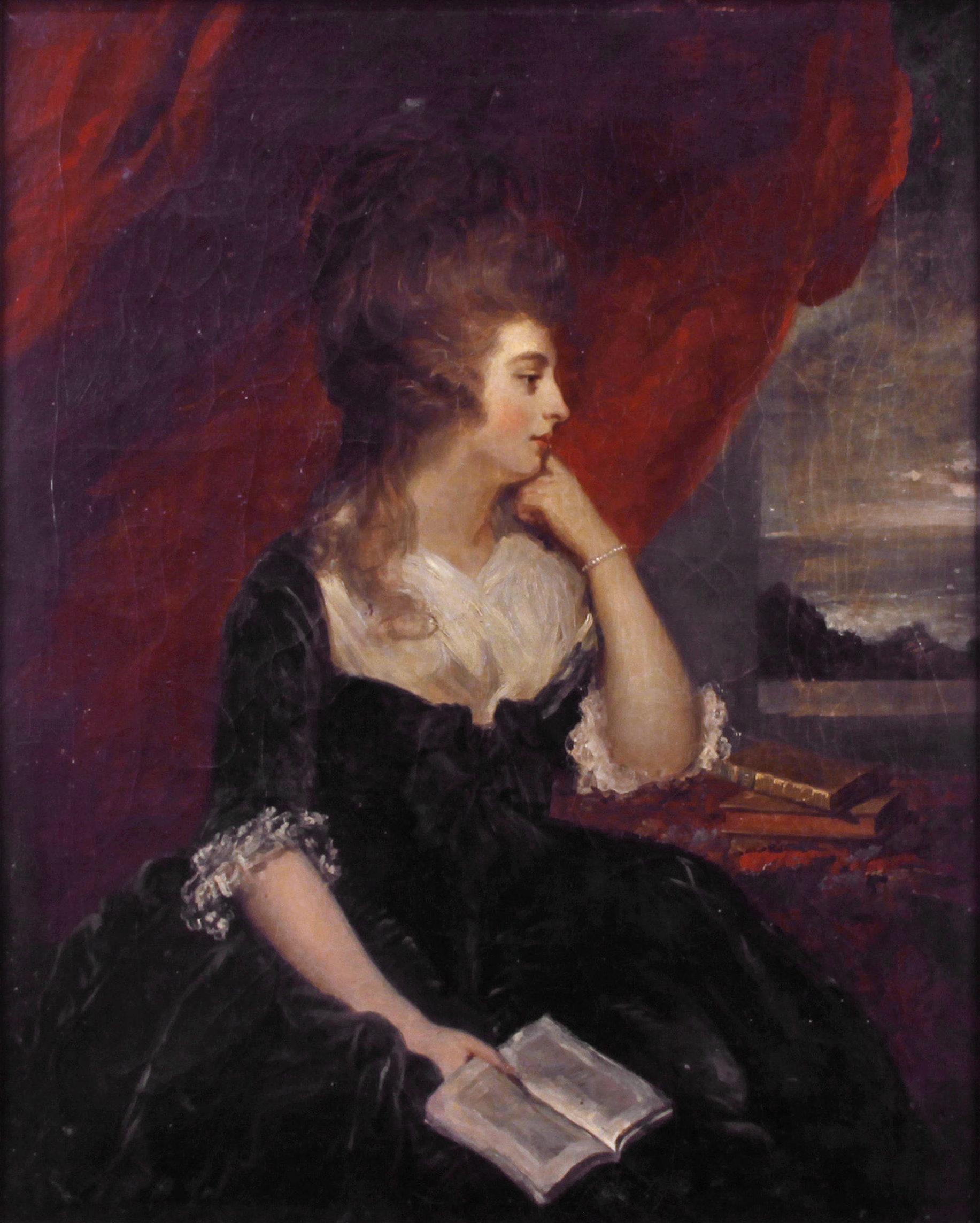 Mary Isabella, Duchess of Rutland oil on canvas 52.5 x 42cm